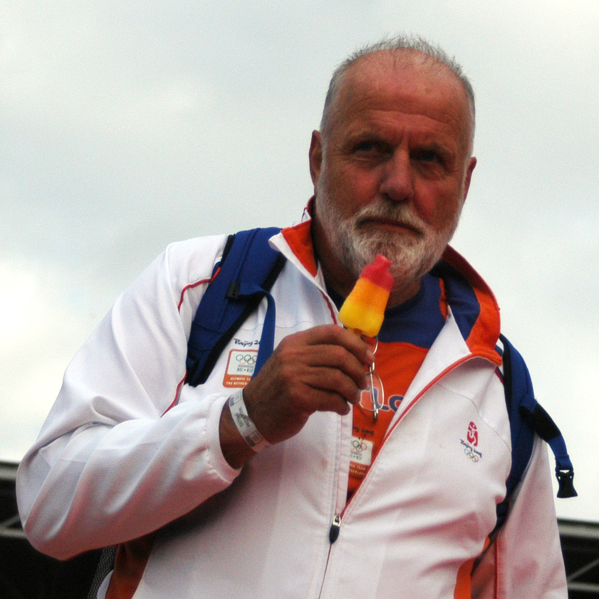 Cor van der Geest at the Olympic welcome in the Olympic Stadium in Amsterdam, the Netherlands.